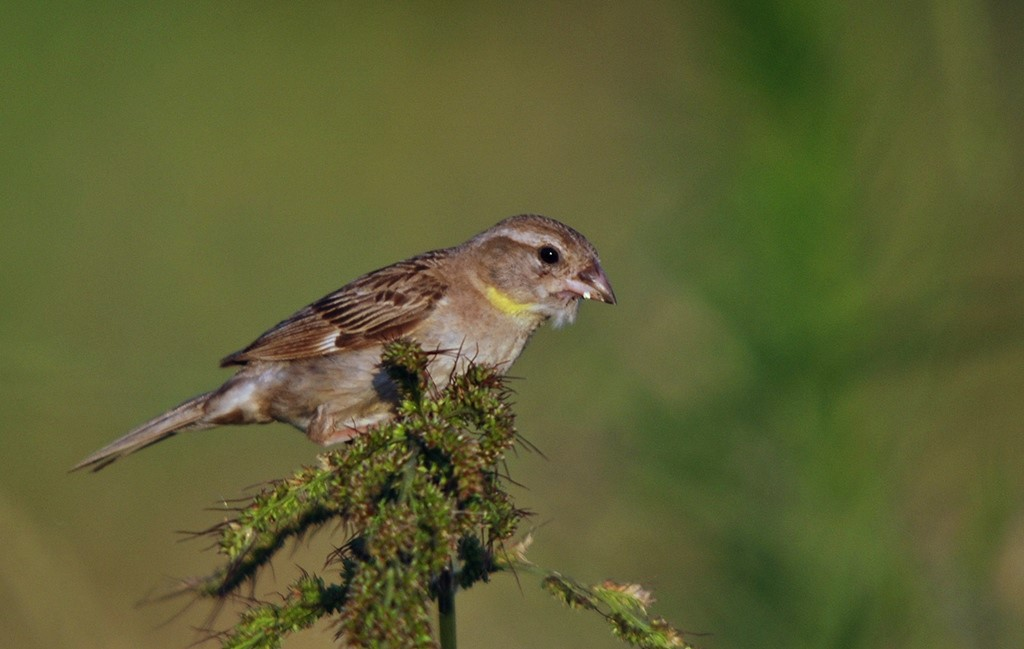 Female Dead Sea Sparrow in southeastern Turkey Kurdî: Ev Beytika biçûk a mê. Li gundê Qorixçî ji aliyê min ve hatiye kişandin.